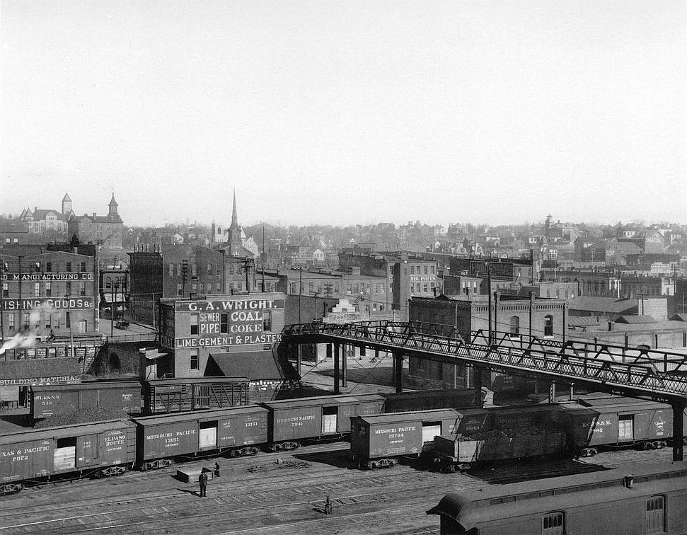 Photograph shows a view of the rail yard beneath the lower Sixth street viaduct on the east side of Atchison, Kansas. Also visible are freight cars (including Missouri Pacific, Texas & Pacific, Kansas City, Fort Scott, & Memphis railway cars), and the business, church, and residence buildings of eastern Atchison.